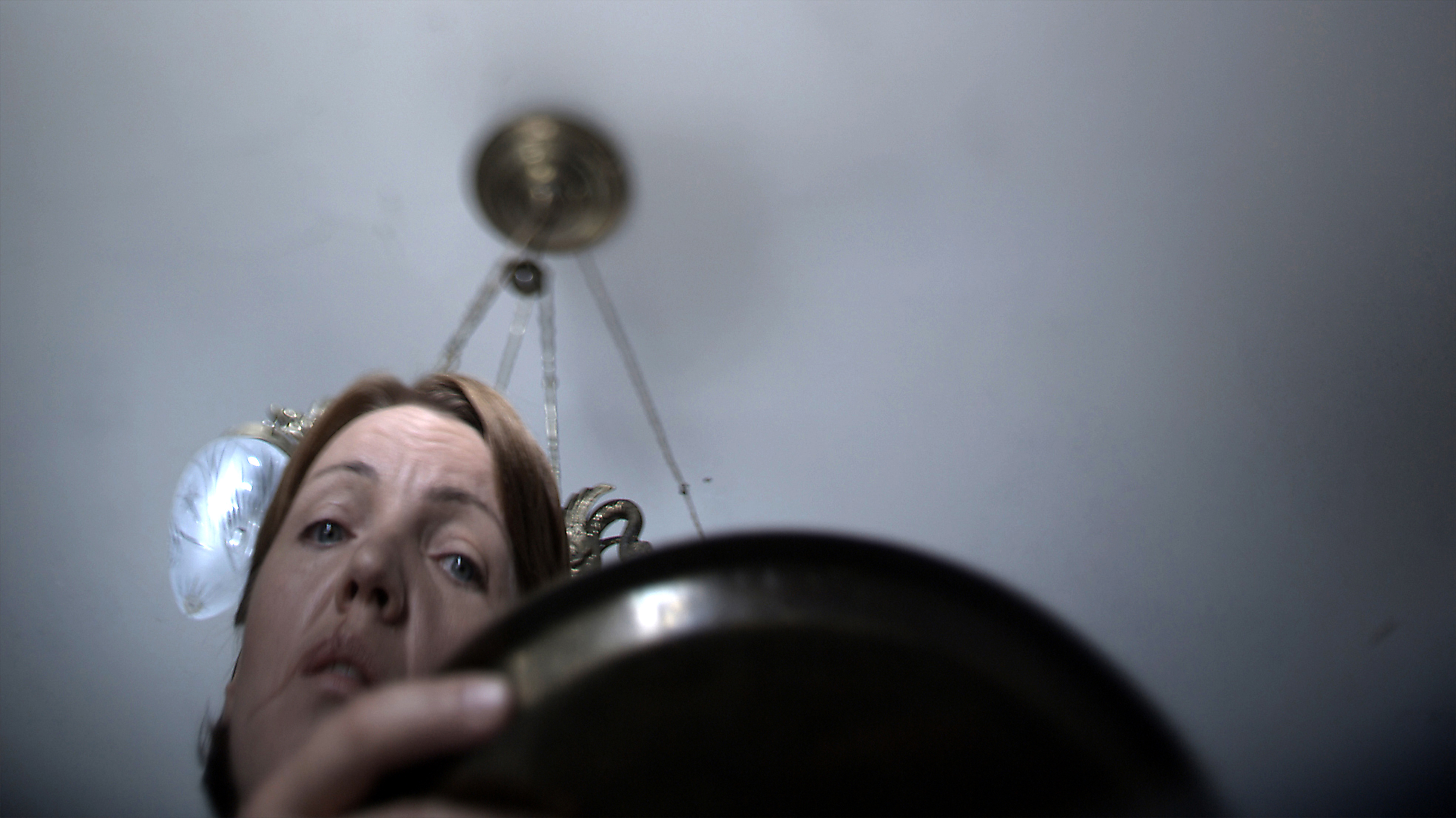 Delirium (film) still